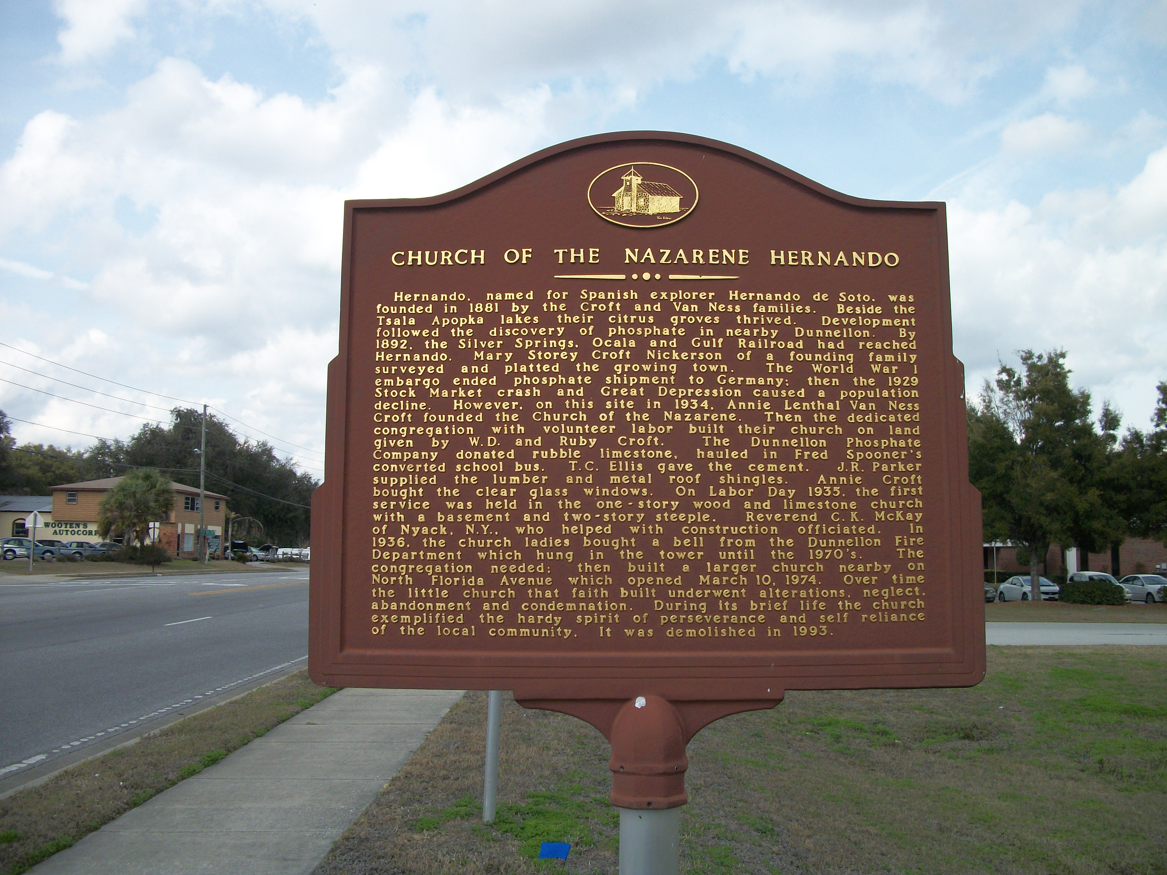 One of two shots of the historical marker for the site of the former Church of the Nazarene in Hernando, Florida.